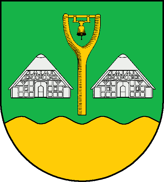 Coat of arms of the municipality Seeth in Schleswig-Holstein, Germany.